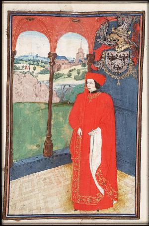 Statuts, Ordonnances et Armorial de l'Ordre de la Toison d'Or (Statutes, Ordonnances and armorial of the Order of the Golden Fleece) Place of origin, date: Southern Netherlands; 1473. Added sections: Southern Netherlands; 1478 or shortly after and 1491 or shortly after Material: Vellum, ff. 86, 249x187 (167x106) mm, 23 lines, littera cursiva (lettre bourguignonne). French. Binding: 18th-century brown leather Decoration: 1 full-page miniature (170x115 mm) with border decoration; 92 miniatures (185/155x120/100 mm); 1 historiated initial (80x90 mm) with border decoration; decorated initials with border decoration (ff., Added section: miniatures ; 4 drawings for miniatures (not finished) Provenance: Presented in 1473 by Gilles Gobet, King of Arms of the Order of the Golden Fleece, to Charles the Bold, Duke of Burgundy and the other Knights during the Chapter of the Order held at Valenciennes; Treasure of the Golden Fleece, Brussls; taken away by the Treasurer C.-F. Humyn (d. 1735) or his daughter C.Ch. de Corte; by legacy to her daughter M.-L. de Corte, wife of Ph.-E. de Poederlé; purchased in 1781 at the Poederlé sale by G.-J- Gérard of Brussels; acquired in 1832 as part of the Gérard collection (no. A 27)